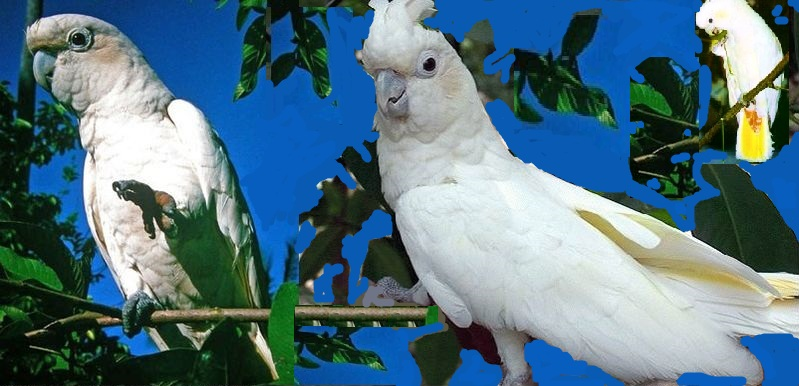 Cockatoos of Gugnan